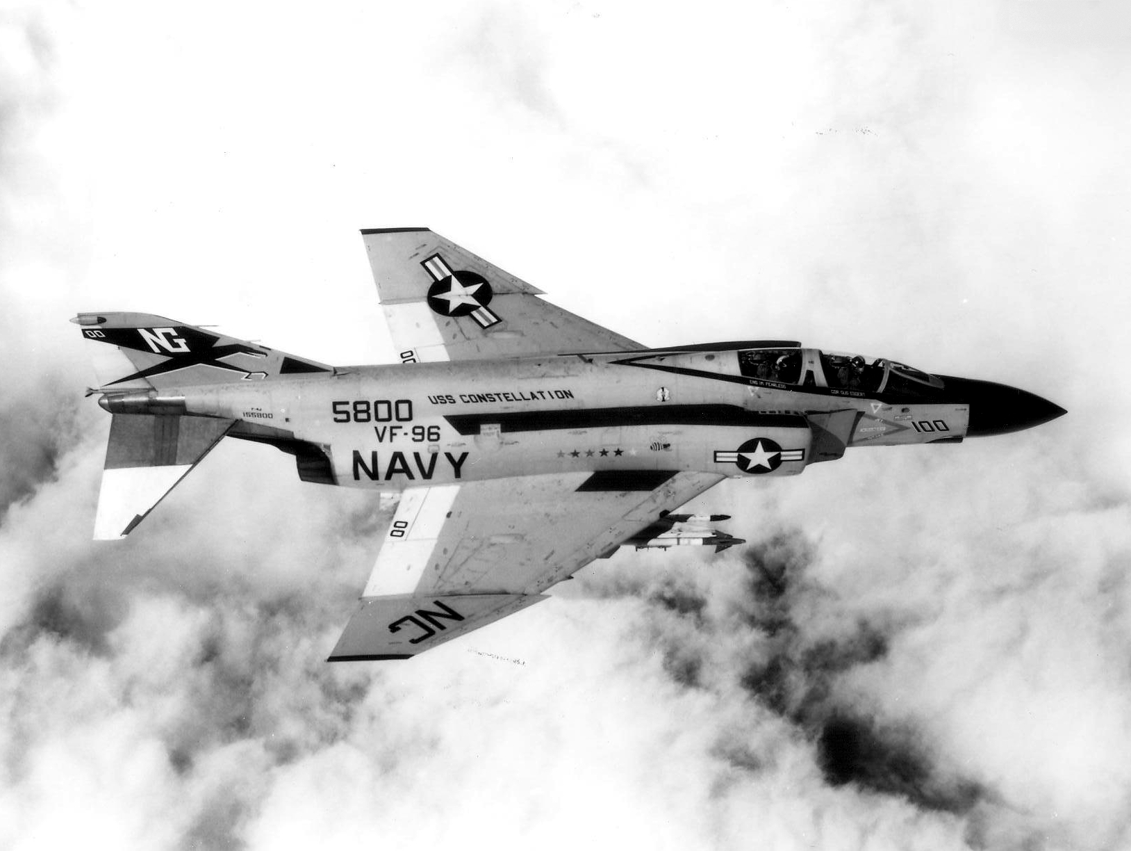 The U.S. Navy McDonnell Douglas F-4J Phantom II (BuNo 155800, NG-100). This aircraft was assigned to fighter squadron VF-96 Fighting Falcons, Carrier Air Wing 9 (CVW-9), aboard the aircraft carrier USS Constellation (CVA-64) in February 1972. Having the callsign "Showtime 100" it was used by Lt. Randy Cunningham and Lt.JG Willie Dricoll for their 3rd, 4th, and 5th MiG-kills on 10 May 1972. However, it was hit by a North Vietnamese SA-2 surface-to-air-missile and the crew had to eject over the Gulf of Tonkin.